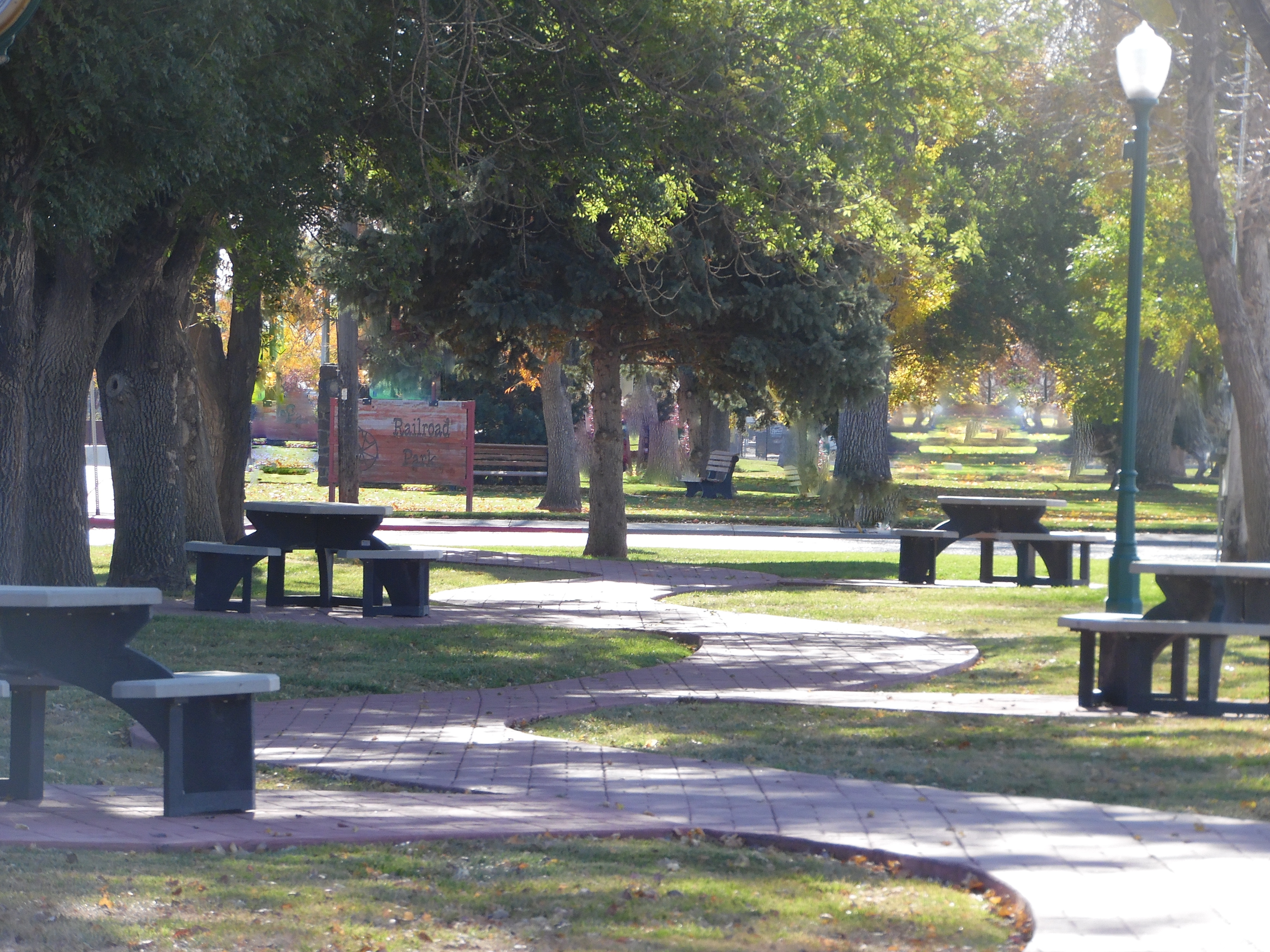 Mountain Home, Idaho This work is free and may be used by anyone for any purpose. If you wish to use this content, you do not need to request permission as long as you follow any licensing requirements mentioned on this page.